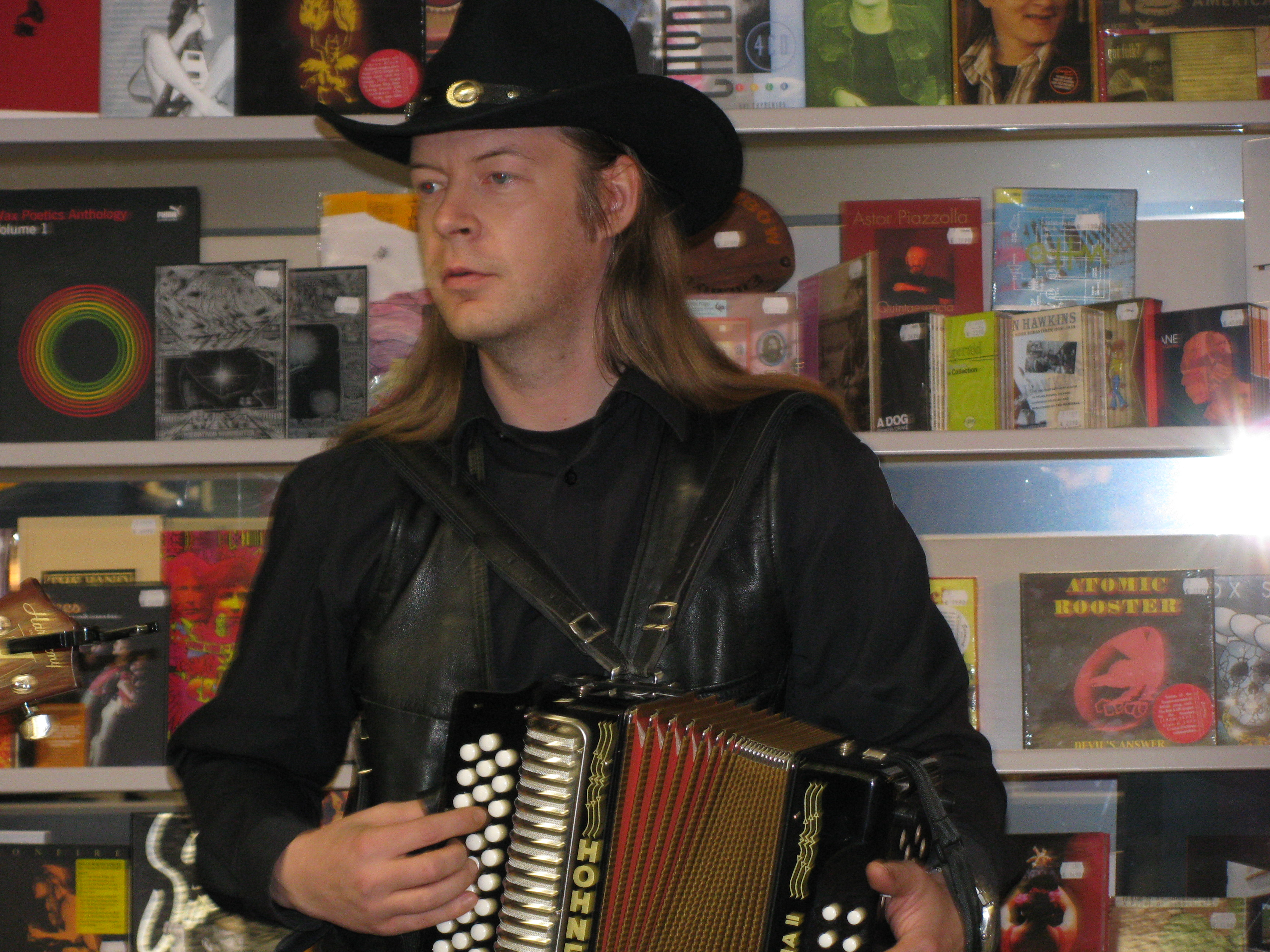 Finnish accordionist Veli-Matti Järvenpää playing in Record Shop X, Helsinki, Finland.